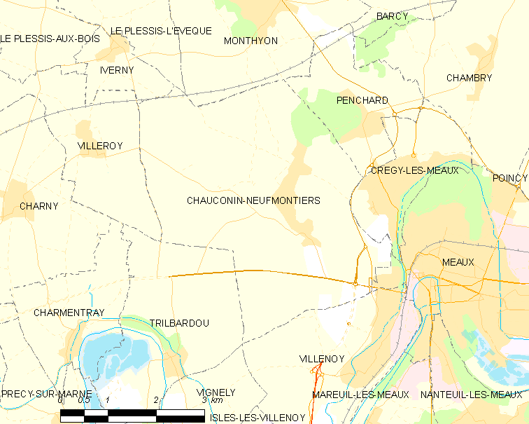 Map of French municipality Chauconin-Neufmontiers